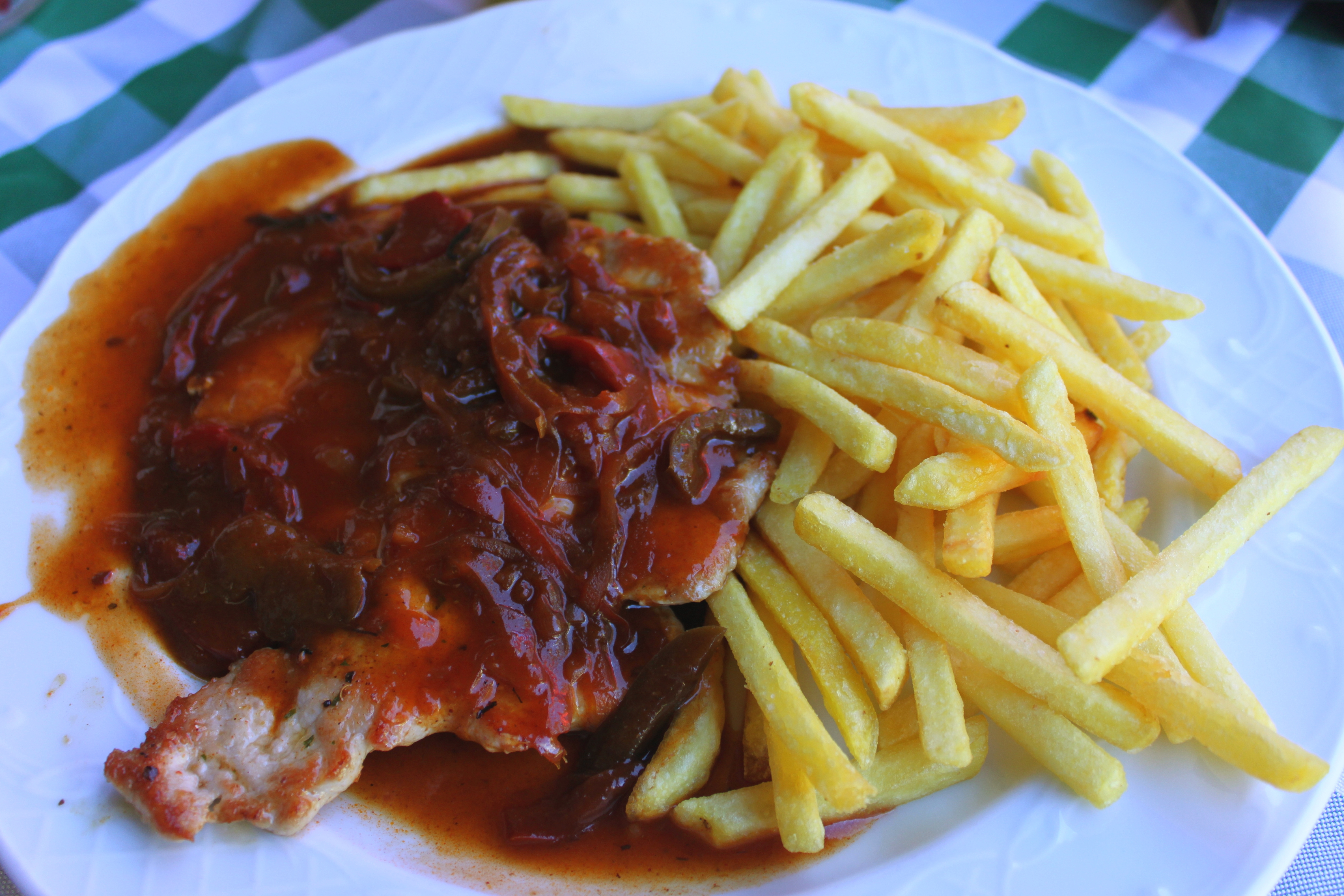 Zigeunerschnitzel - pork cutlet with a paprika sauce and fries. Photographed at Jennerkaser in Schnönau am Koenigssee .